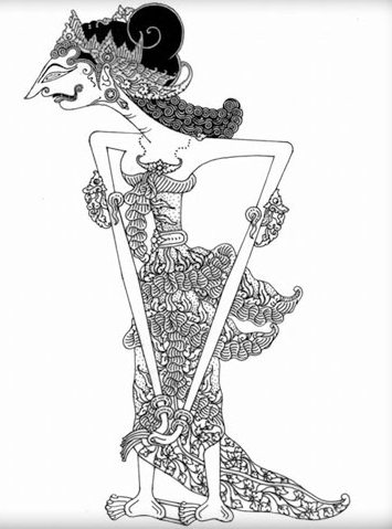 Amba, Mahabharta